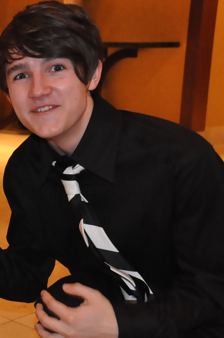 Tommy Knight at the Twenty-First Gallifrey One Convention in Los Angeles (2010).